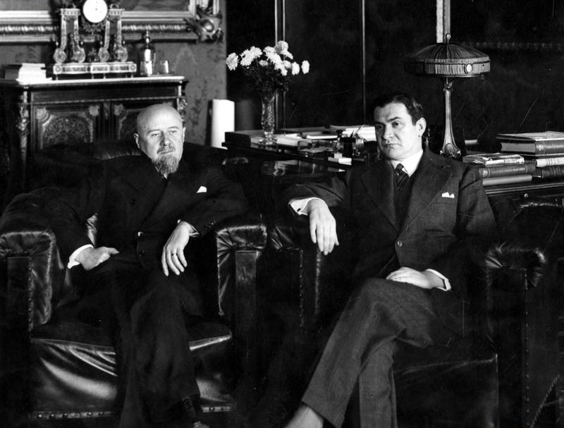 Polish prime minister Aleksander Prystor (left) and minister of internal affairs Bronisław Pieracki.